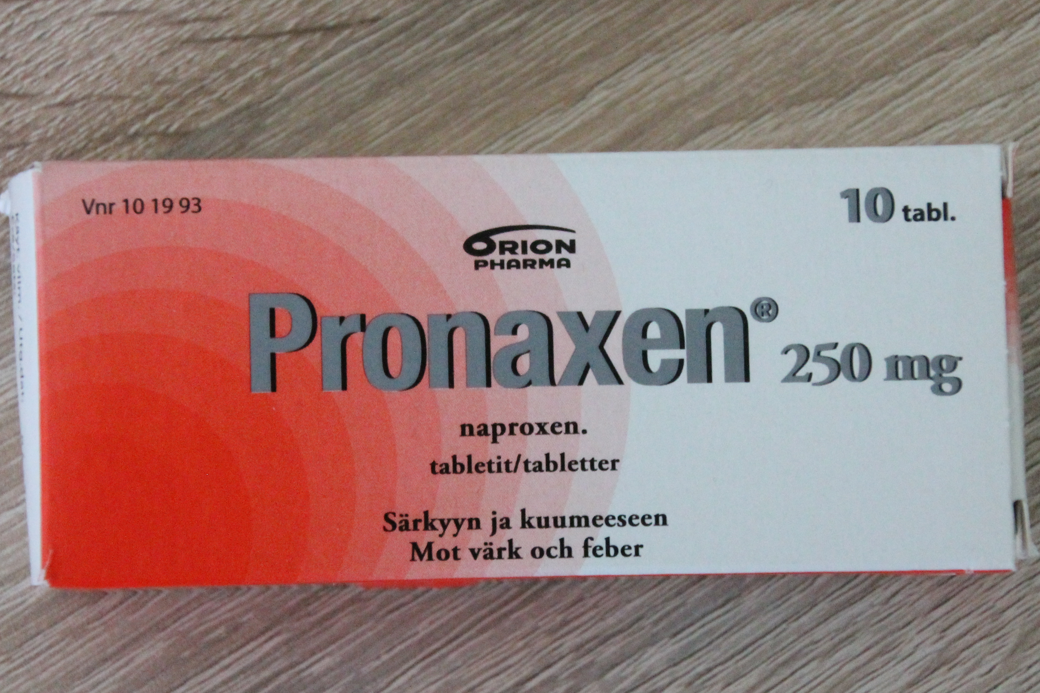 Finnish naproxen package